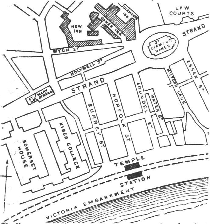 1888 plan of the area around Temple underground station and the eastern part of the Strand, including St Mary le Strand and St Clement Danes churches. The area around Wych Street north of the Strand was demolished and redeveloped in the early 1900s to create the Aldwych; it later became the site of Australia House and Bush House.